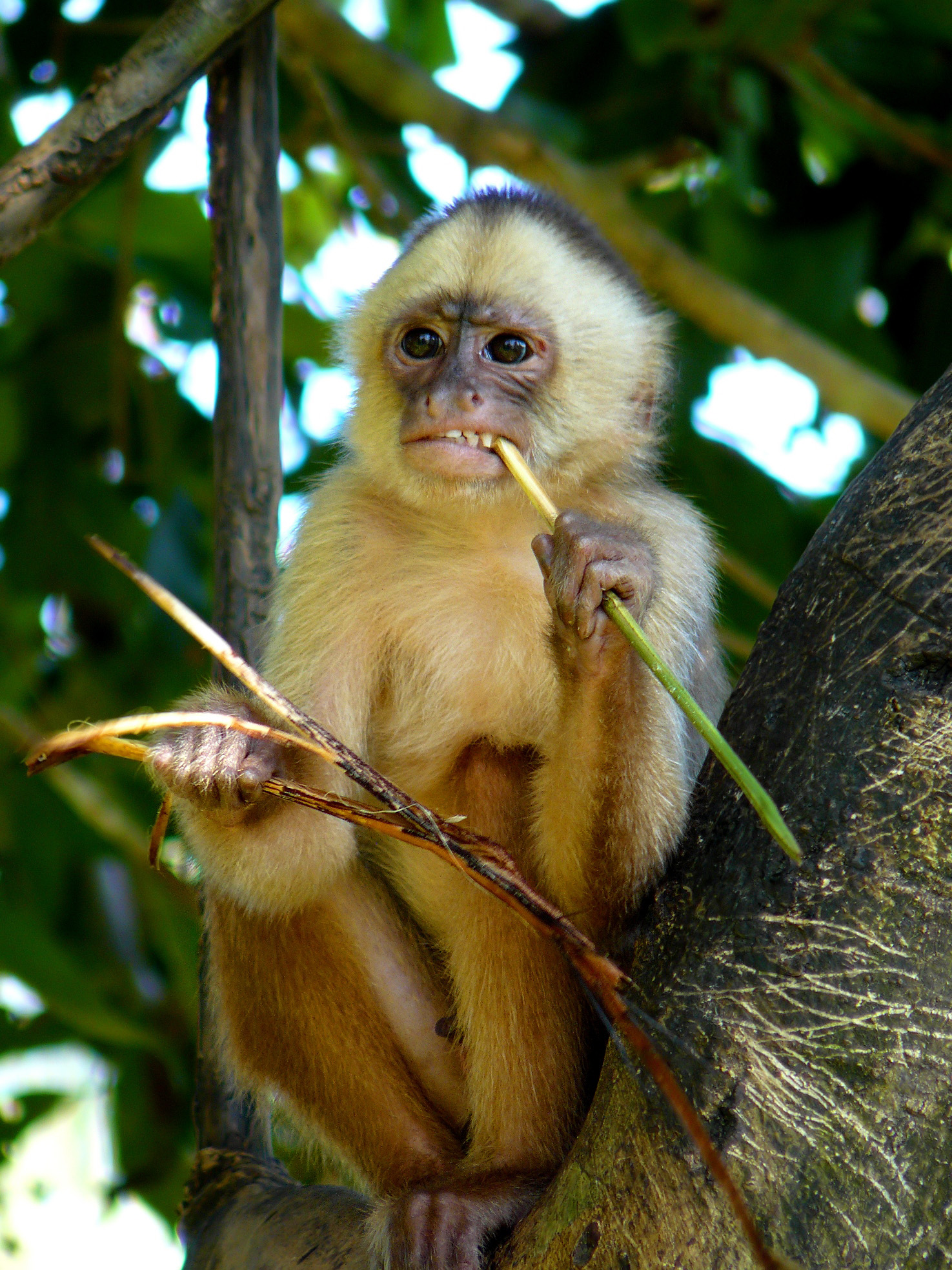 A young female of White-fronted Capuchi Monkey (Cebus albifrons).